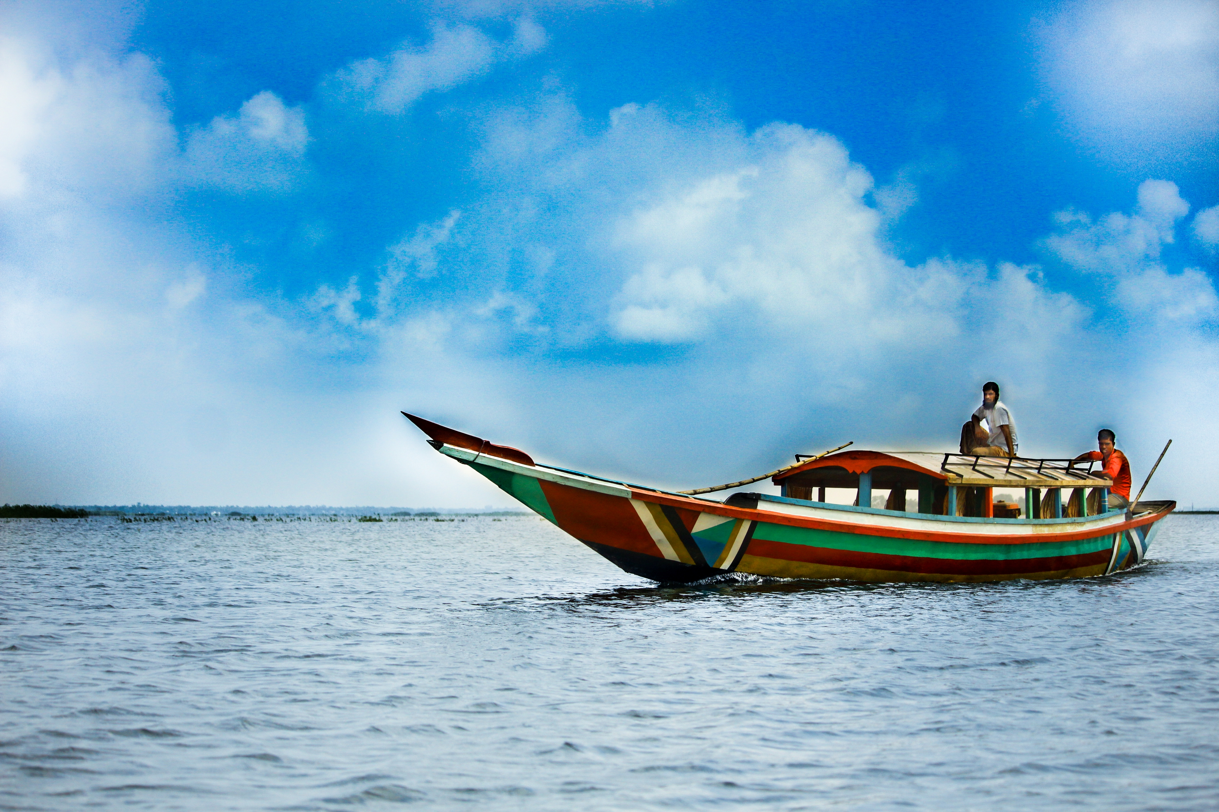 Halti Beel, Natore